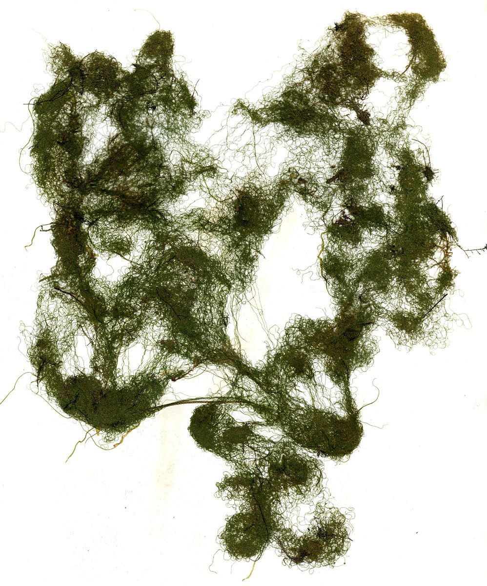 Chaetomorpha ligustica, herbarium sheet. Collected 1987-09-11, Heligoland (Germany), lower eulitoral